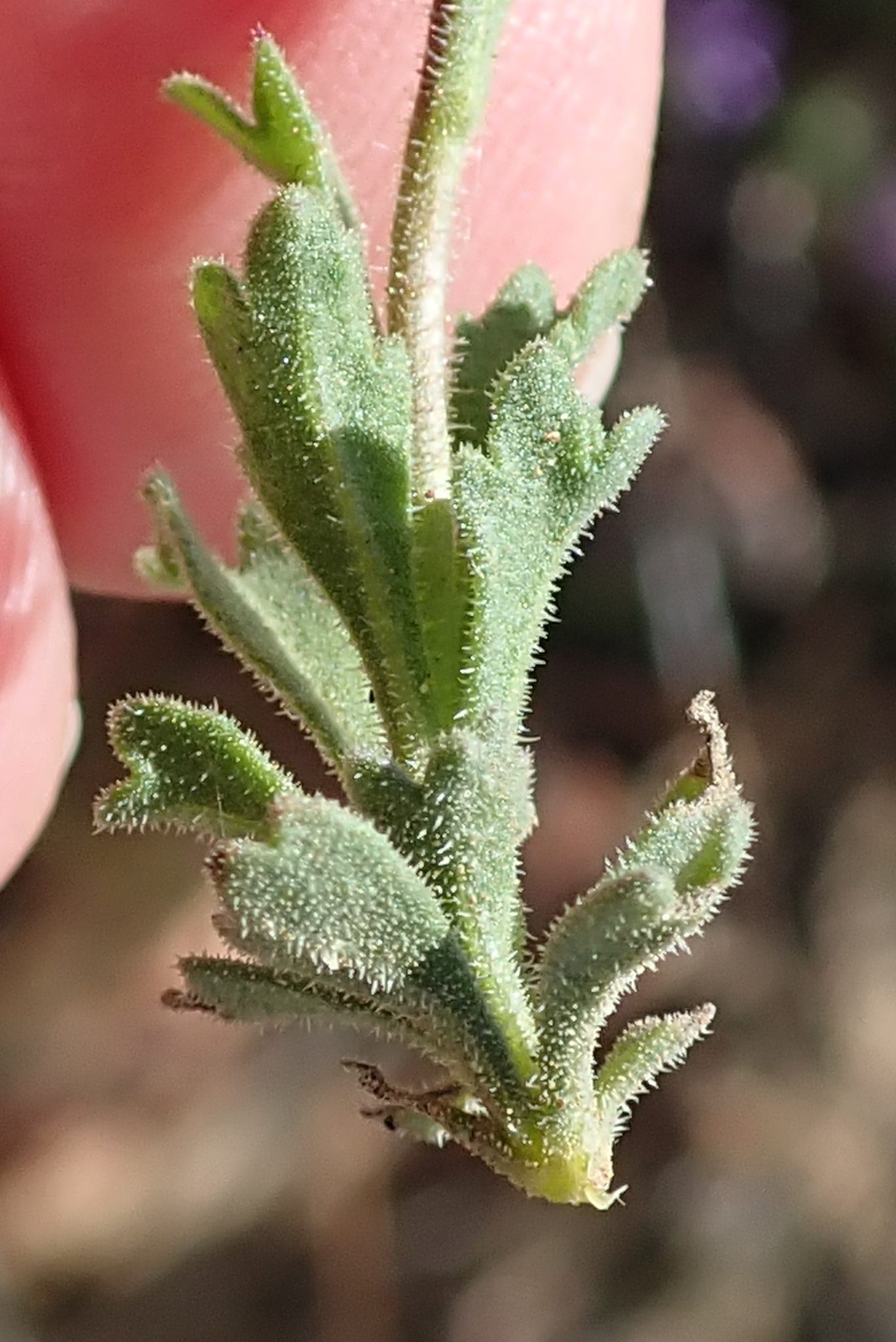 Felicia brevifolia, photographed by Peter R. Warren, on 3 September 2018, at Eselbank Pass Loop, Clanwilliam County, Western Cape province of South Africa